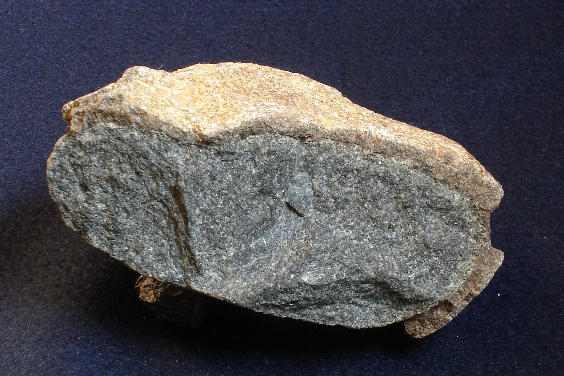 Spheroidal weathering in a freshly broken basalt (15 X10 cm size). See the weathered crust.